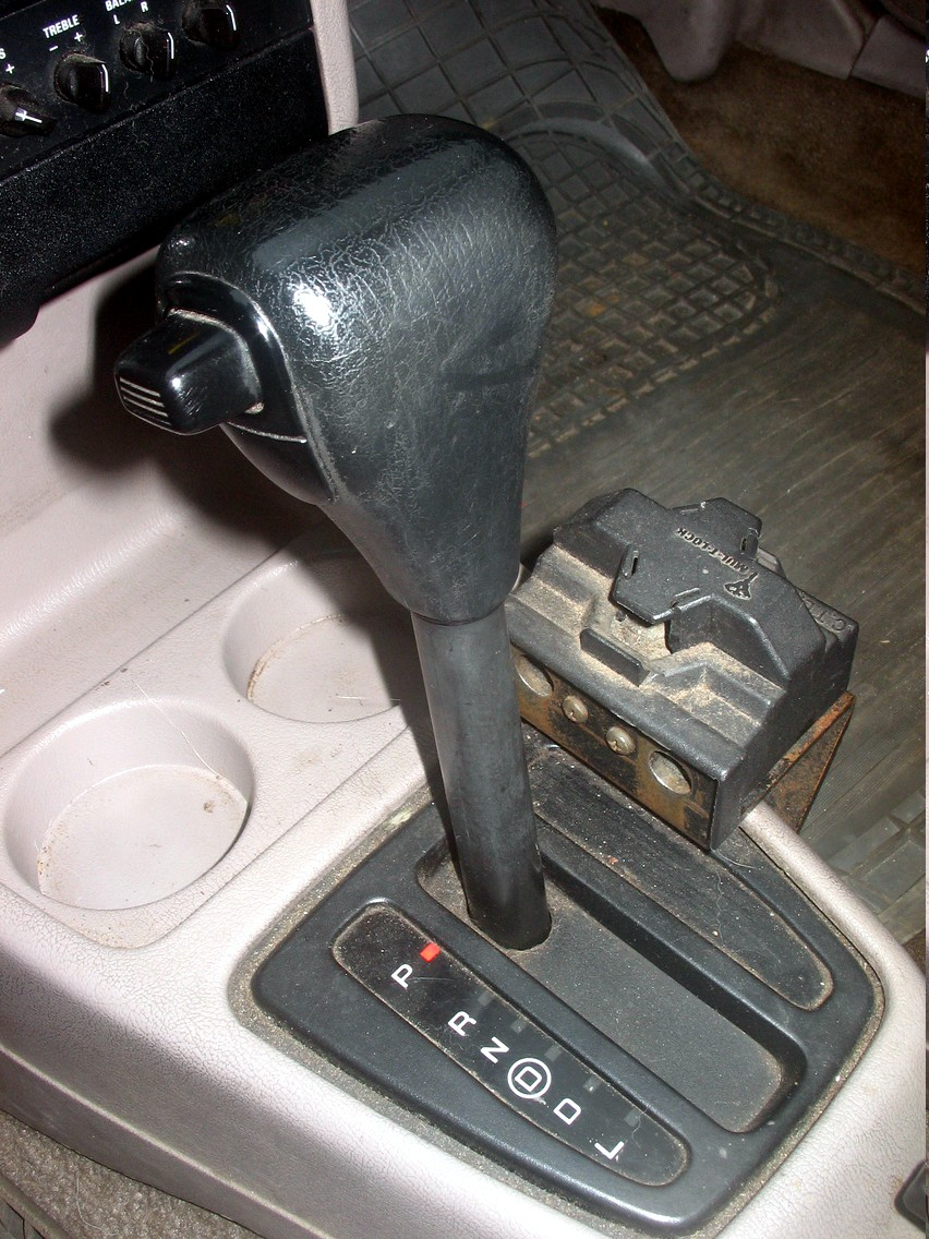 Ford (US version) Escort 1.9 Wagon LX (year of production: 1992), in Poland